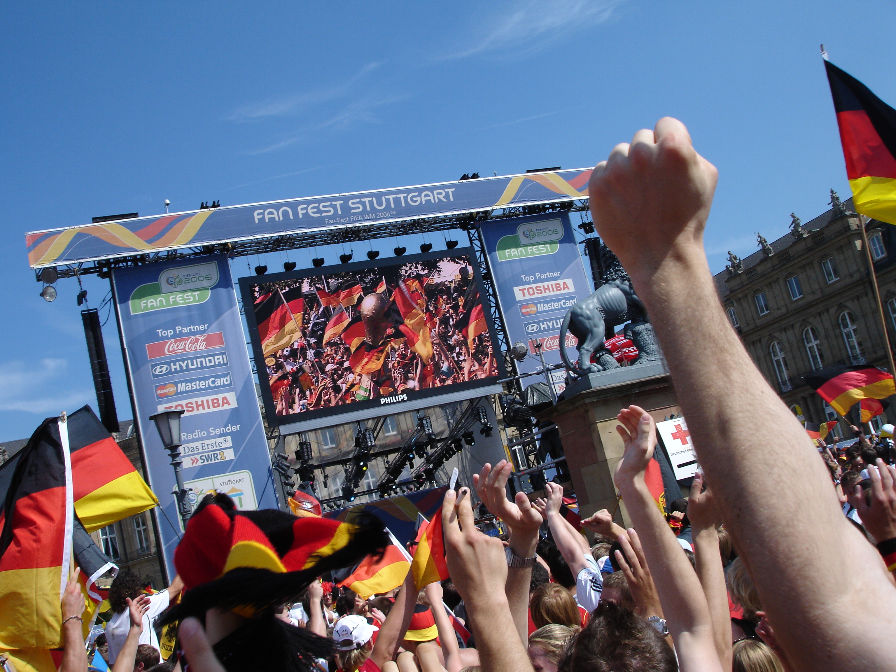 FIFA World Cup 2006: Germany vs Sweden - Fan fest at Stuttgart